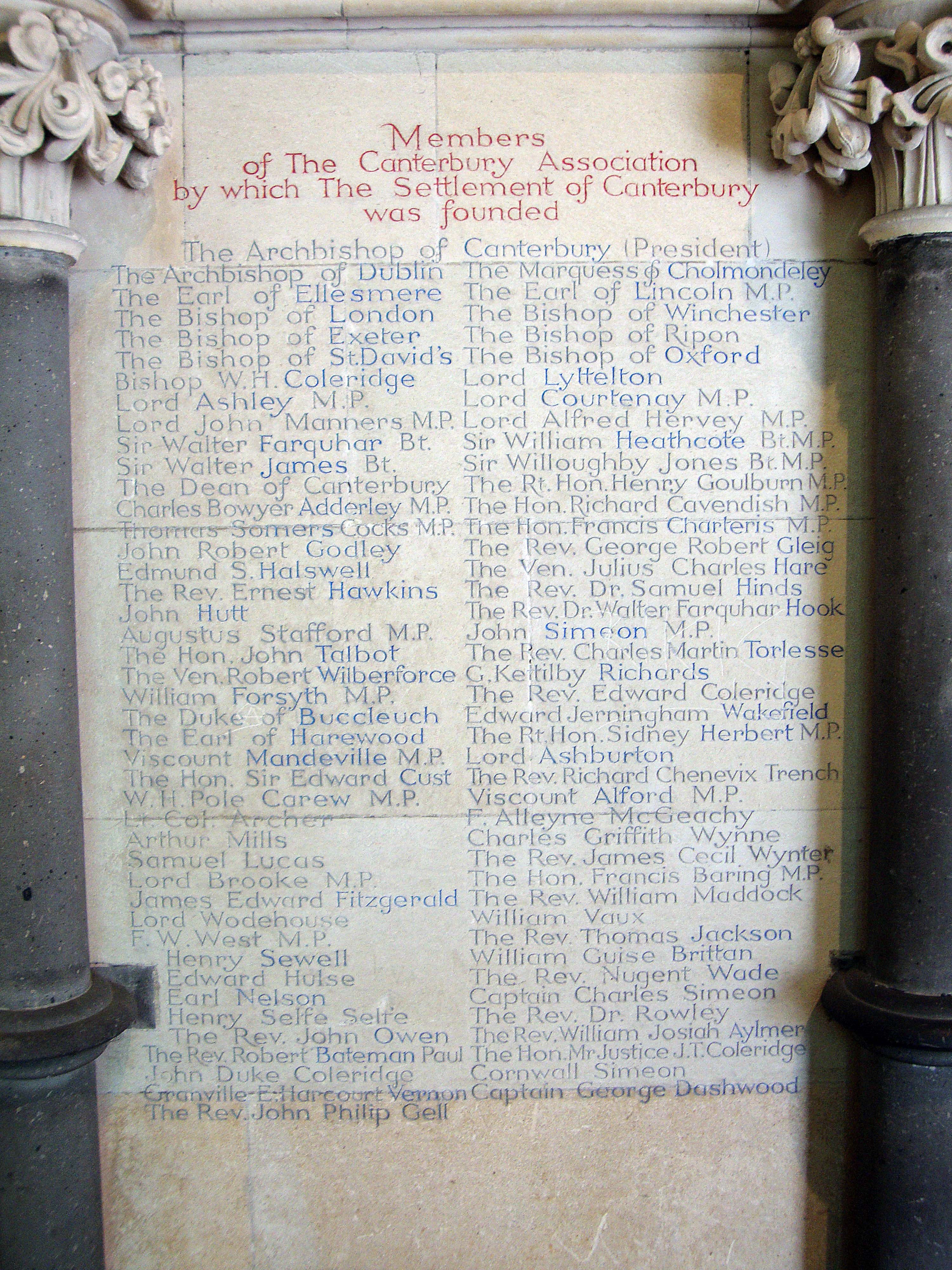 Memorial tablet in the western porch of the ChristChurch Cathedral showing the members of the Canterbury Association.